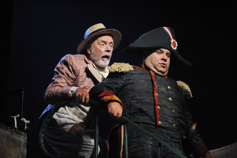 Boris Ahanov (on the left)